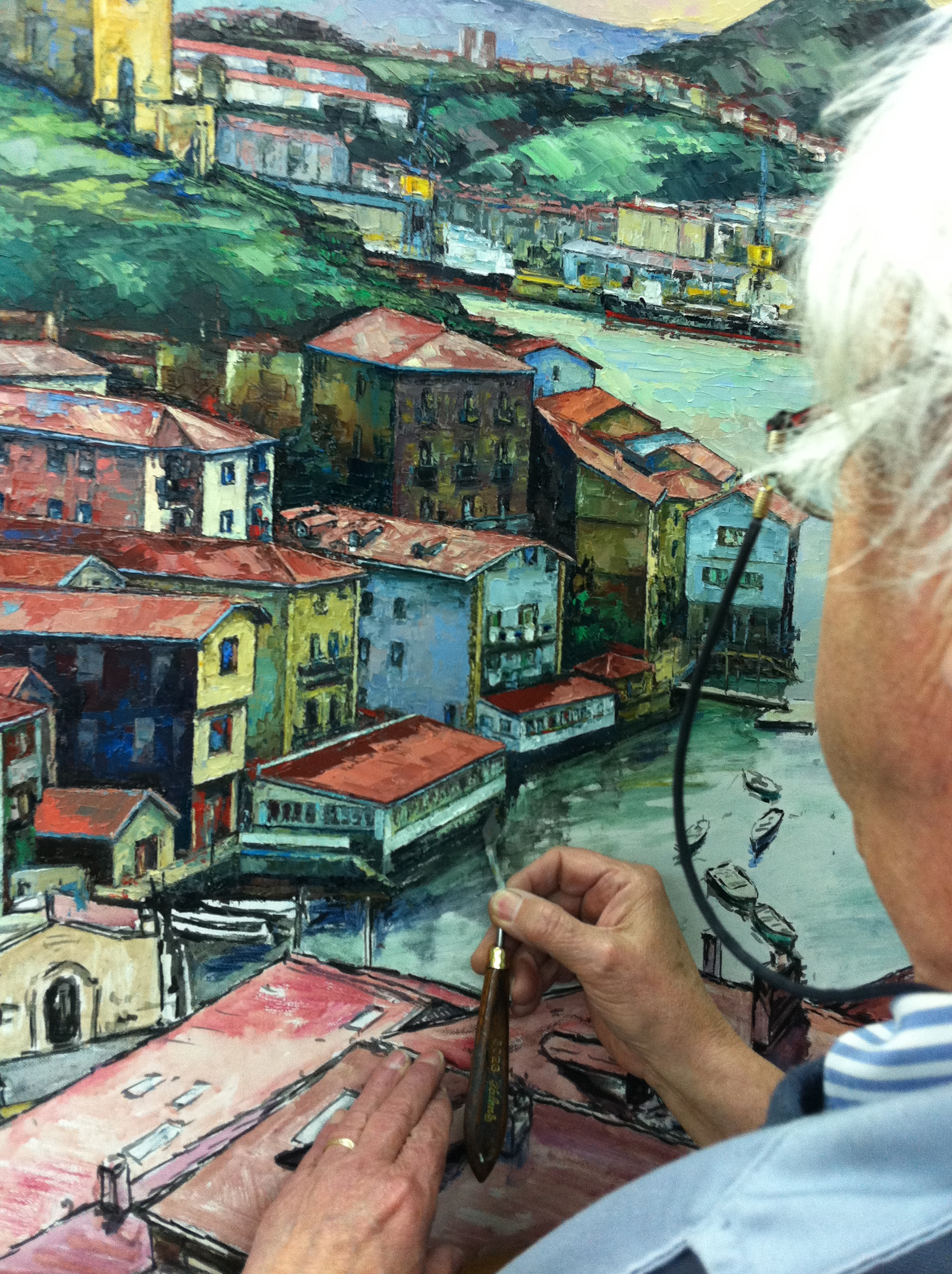 Oil on canvas paint by Pasajes.